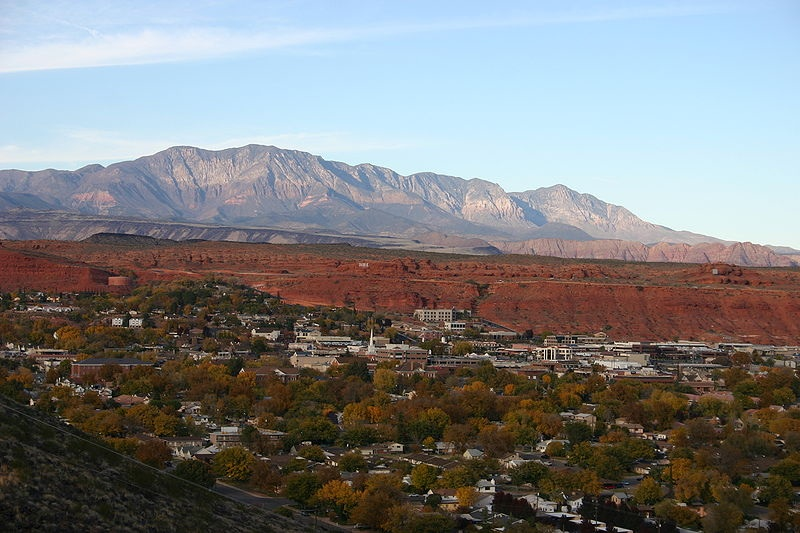 Downtown St. George, Utah